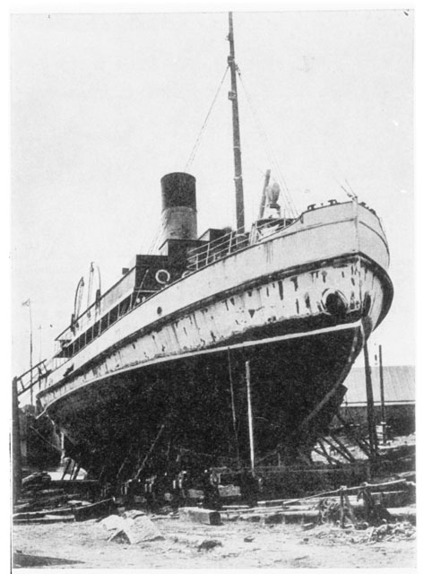 Finnish icebreaker Avance on a shipyard. She was renamed Apu in 1923.